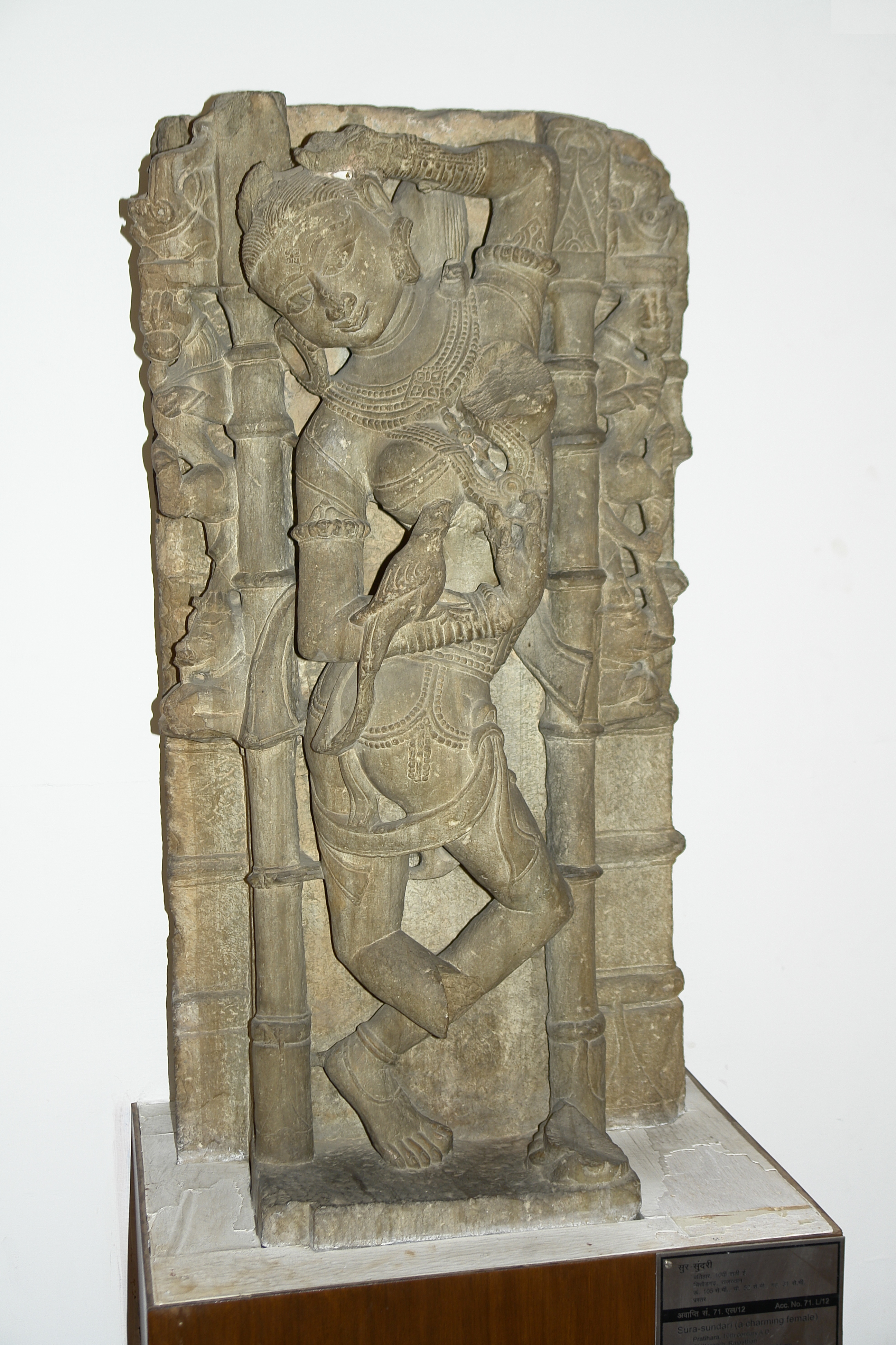 Sura Sundari, a charming female. National Museum, New Delhi. Pratihara, 10 century A.D., Chittorgarh, Rajasthan. Height 105 cm, width 52 cm, depth 31 cm. Stone.